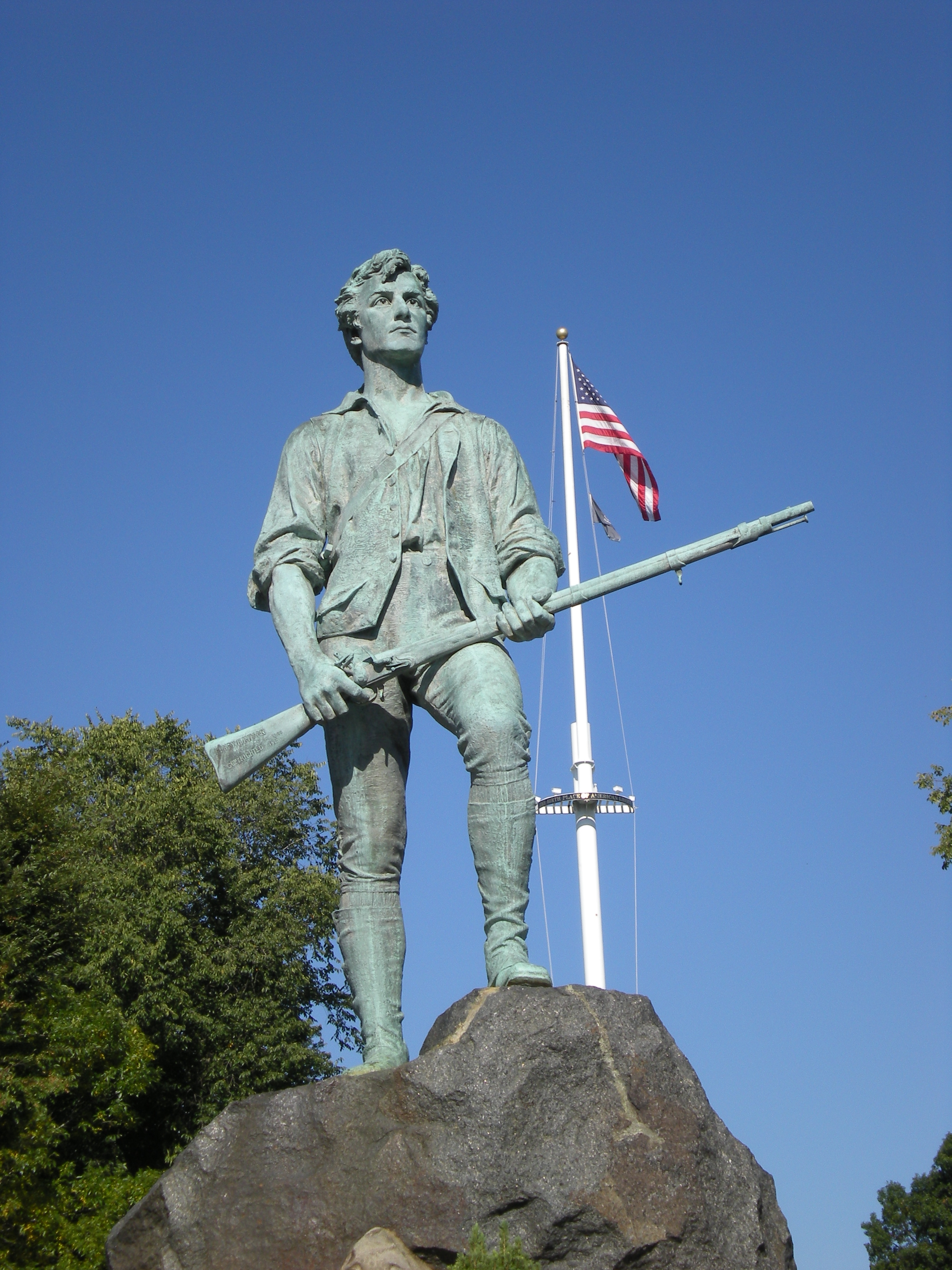 Lexington Minuteman, It's in the eyes.